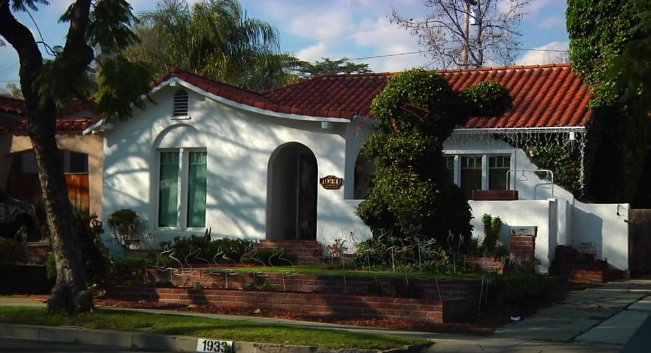 The Bunny Museum in 2012.